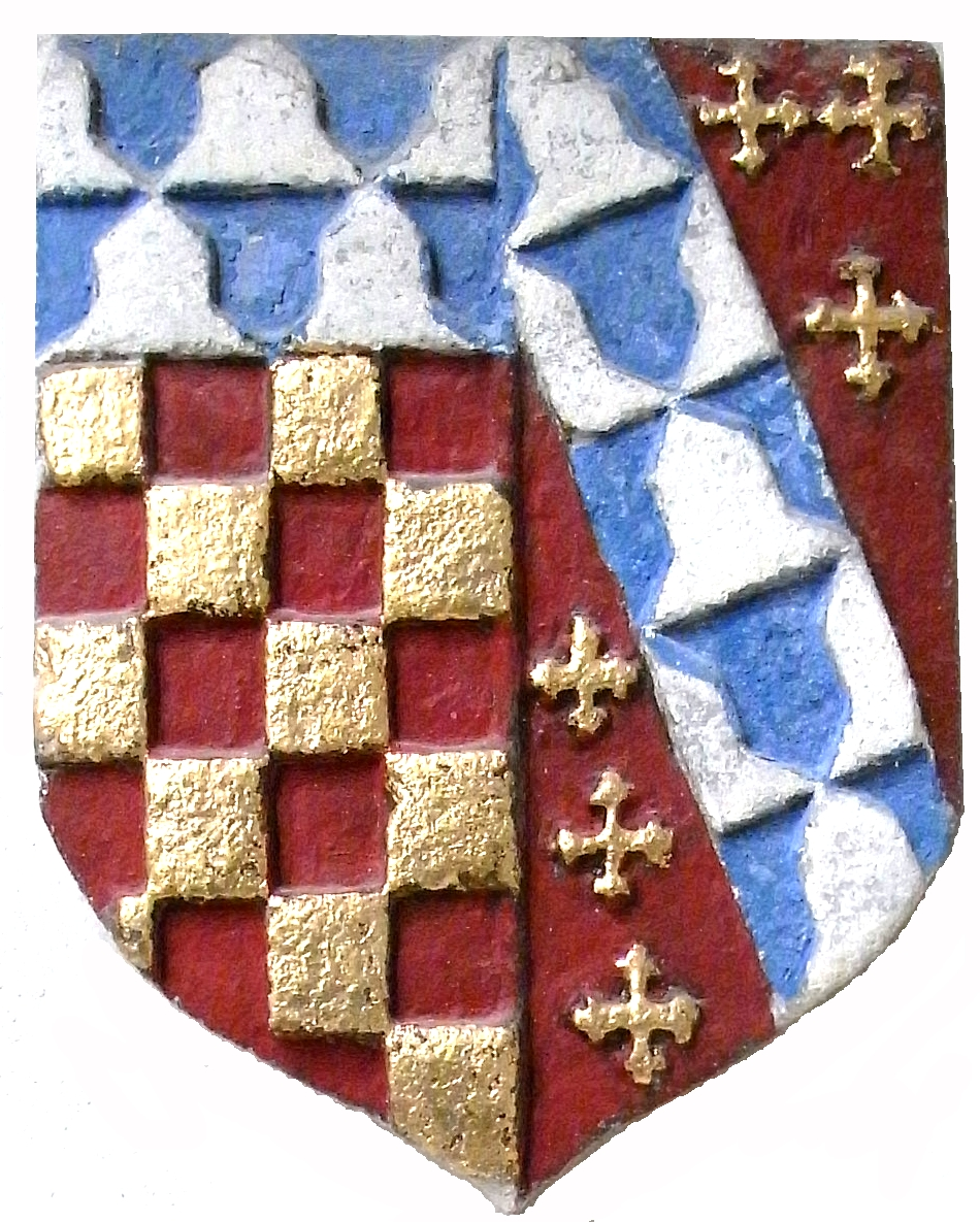 Arms of Chichester impaling de Raleigh, painted on stone escutcheon in strapwork surround on monument to Sir John Chichester (d.1569) in Pilton Church, Devon. The arms of Raleigh are Gules crusilly or, a bend vair, and are also shown as the second quartering of ten on an escutcheon on top of the monument. By marriage to the Raleigh heiress in the 14th c. the Chichester family acquired the manor of Raleigh in the parish of Pilton, and many others. These arms are also those blazoned for "Henri de Ralle" on the following mediaeval rolls of arms: Dering Roll (185), St George's Roll (E406), Heralds' Roll (HE317), Charles' Roll (F207) (Source: Brian Timms Website)